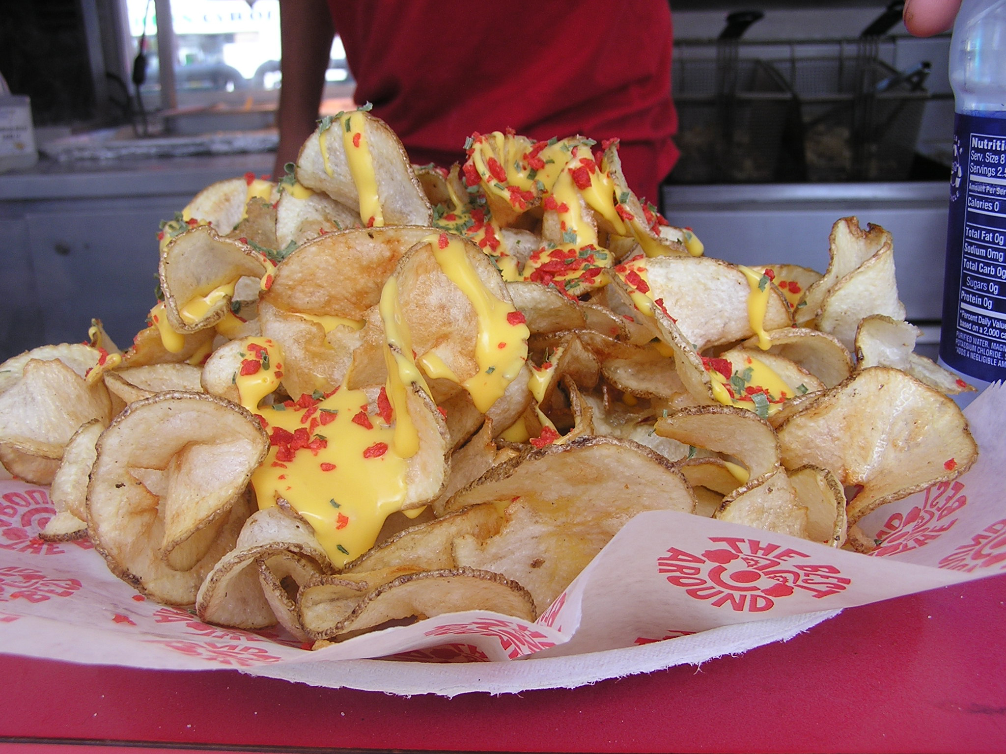 Saratoga chips at the Mississippi State Fair in Jackson, Mississippi